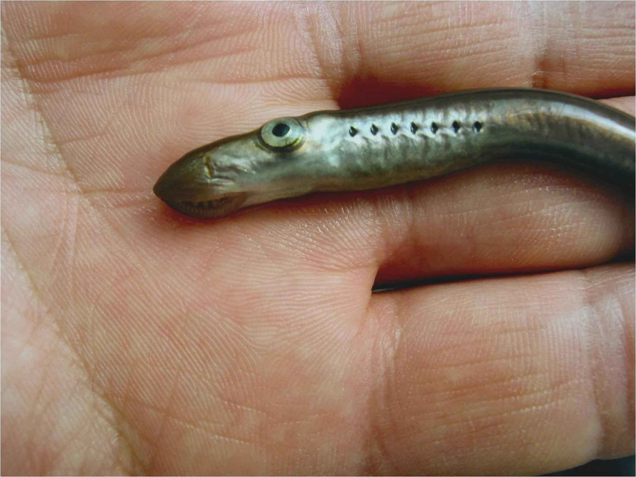 Image title: A juvenile pacific lamprey macropthalmia Image from Public domain images website